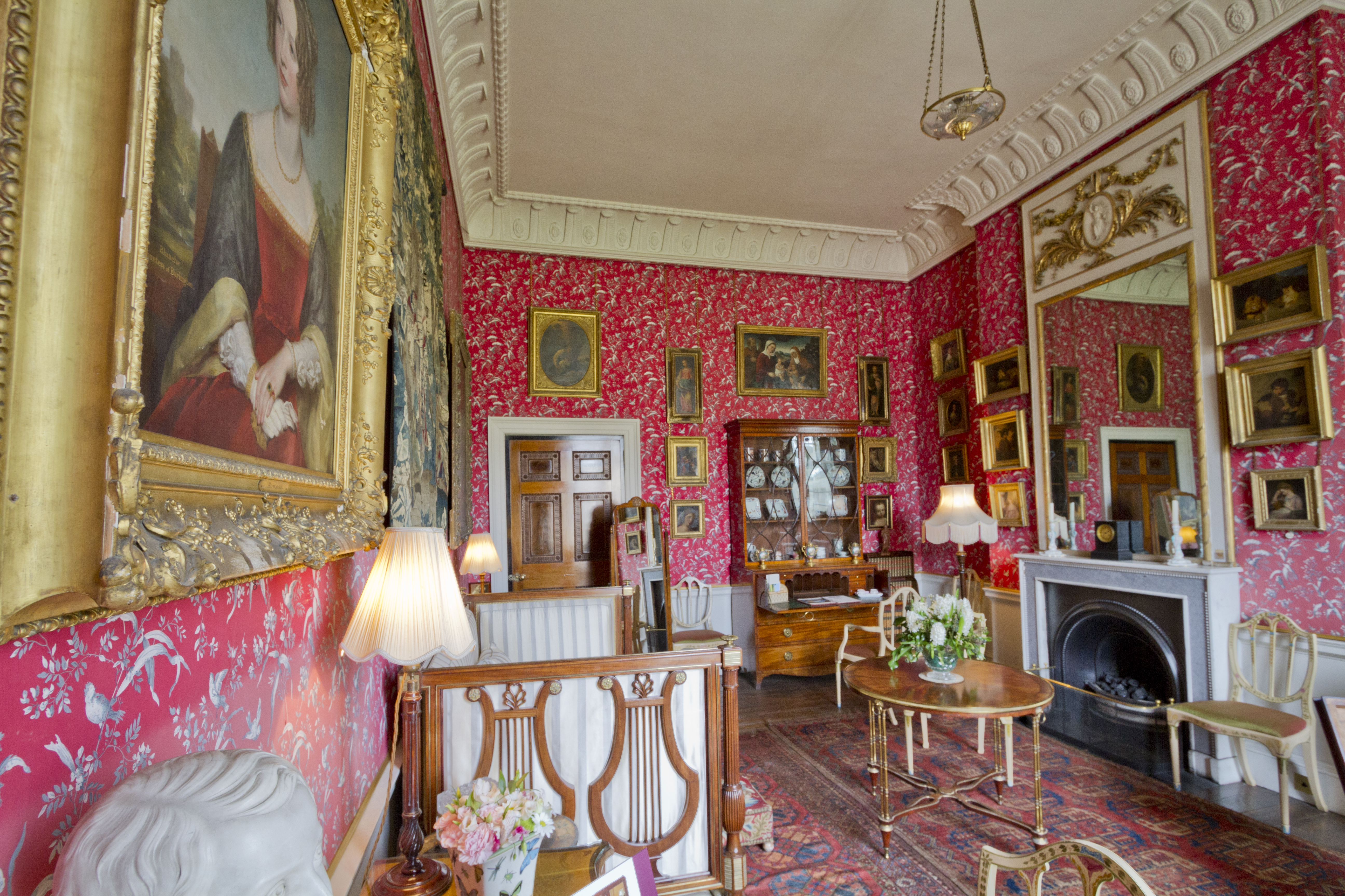 Here is a photograph taken from Lady Georgiana's Dressing Room inside Castle Howard. Located in York, Yorkshire, England, UK.